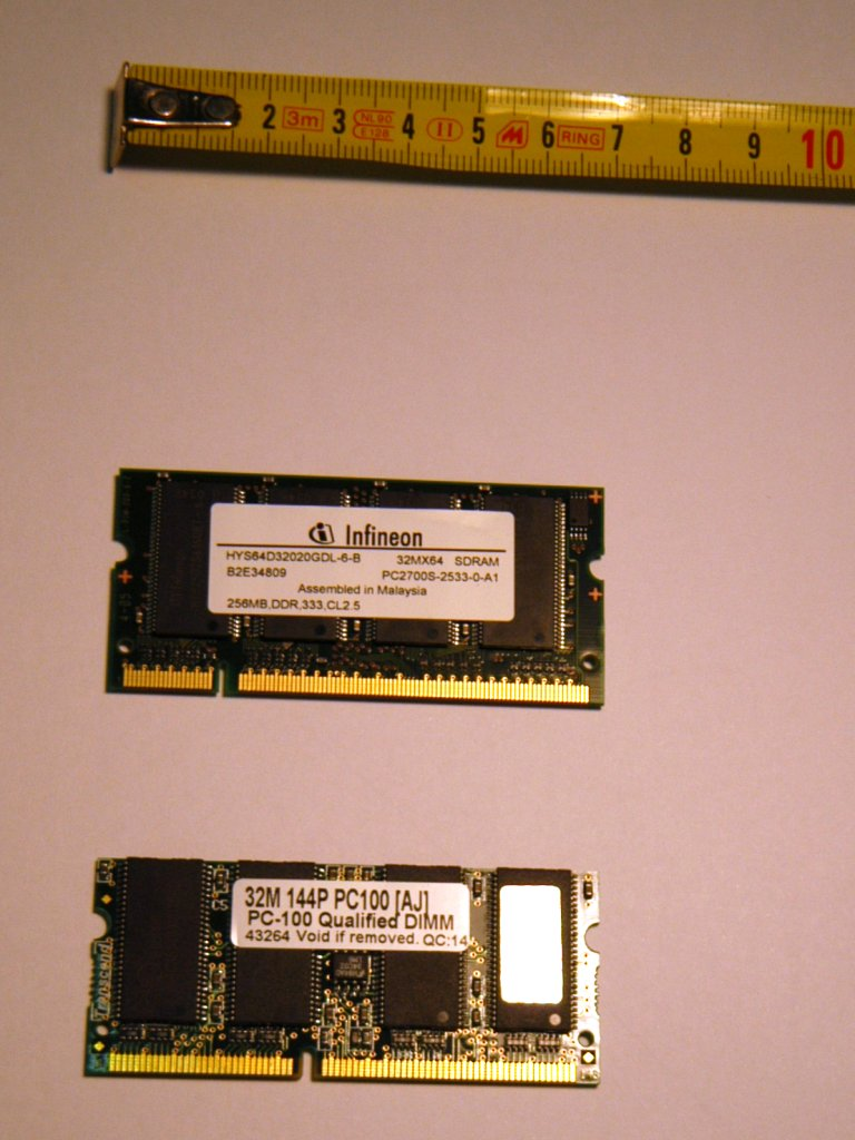 RAM - SODIMM memories for laptop computers - DDR and SDRAM